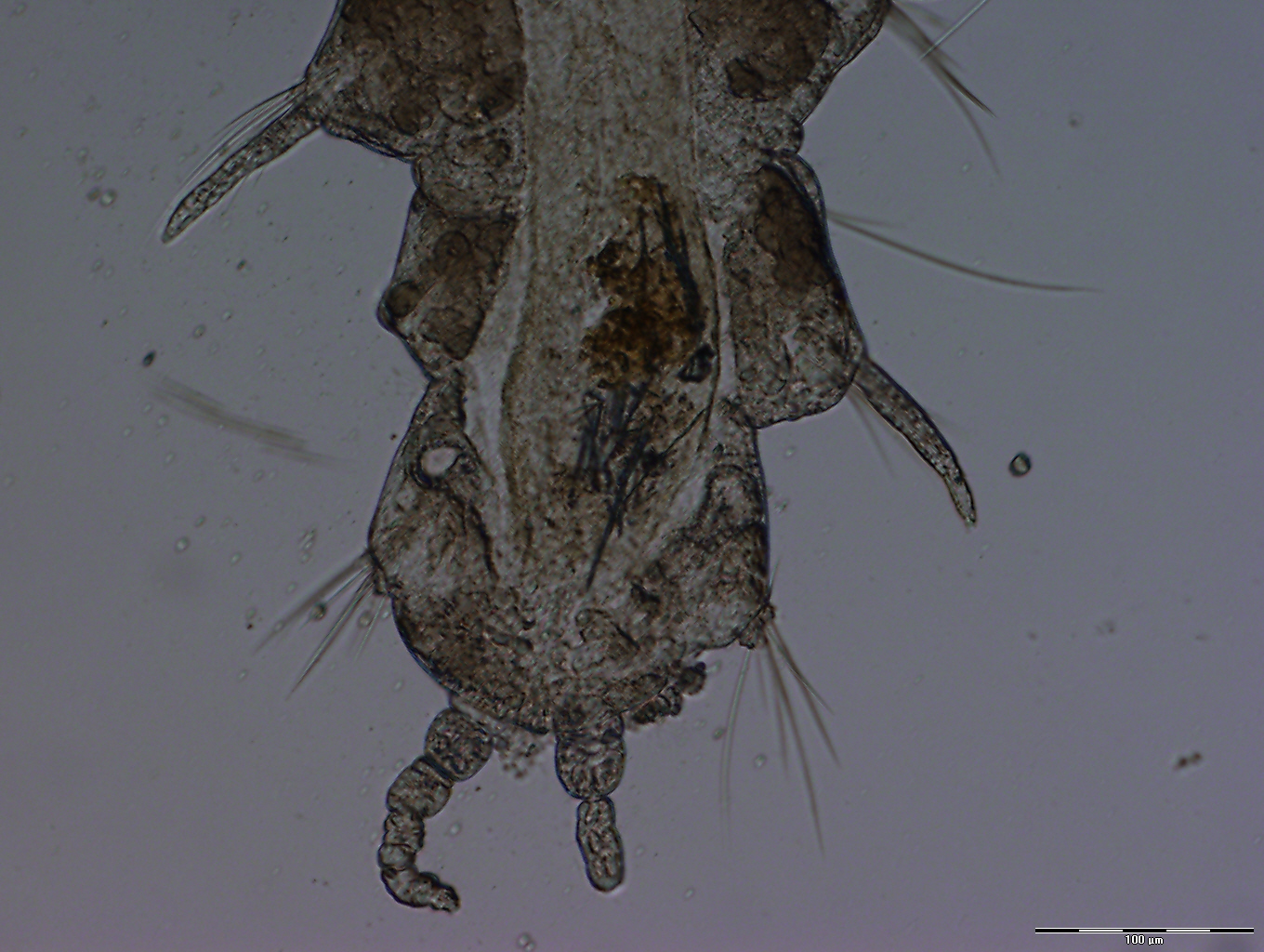 Nerilla antennata, pydigium